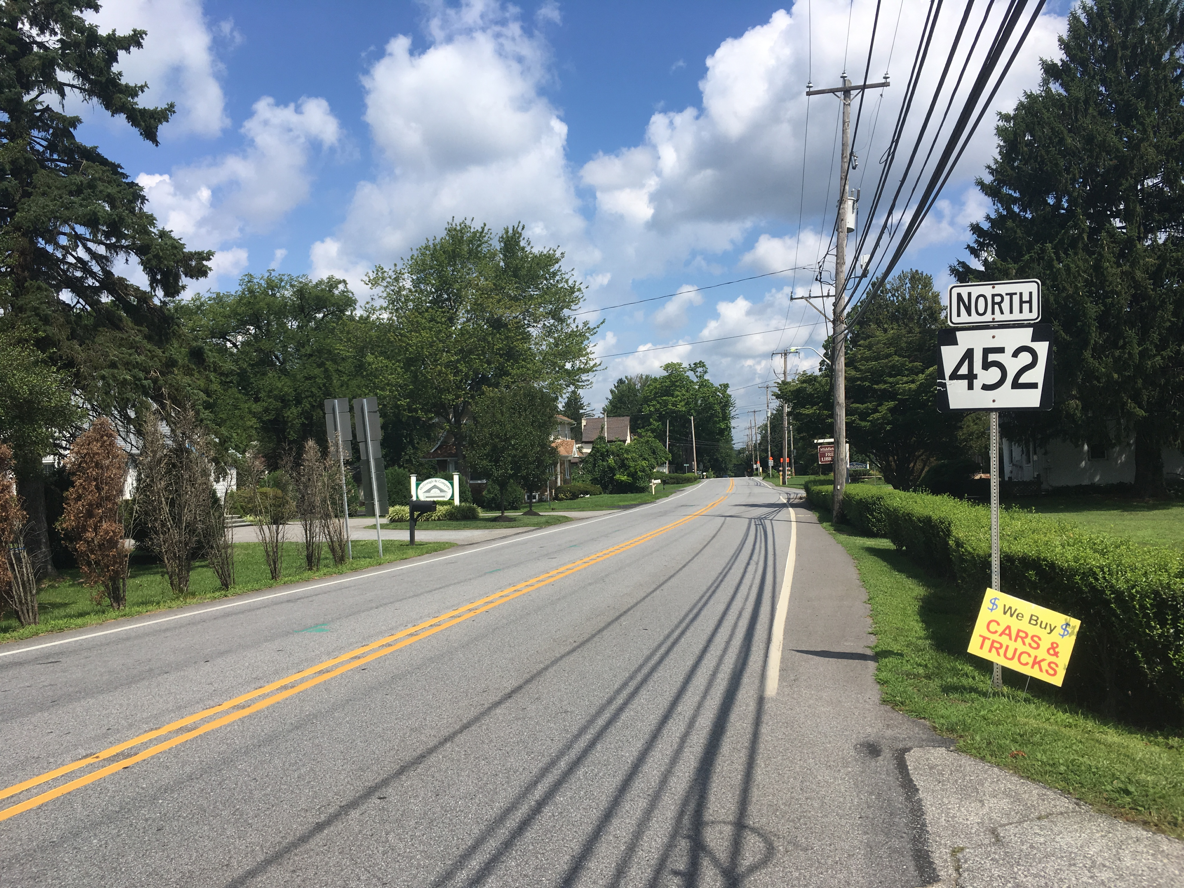 Northbound Pennsylvania Route 452 (Pennell Road) past the intersection with U.S. Route 1 (Baltimore Pike) in Middletown Township, Pennsylvania